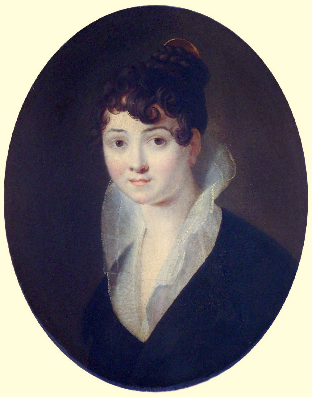 Oil painting on canvas (H. 53.5 ; W. 44.5) of Madame Constant, née Louise Caroline Catherine Charvet (1791-1861). Legacy of Édouard Charvet (1929).